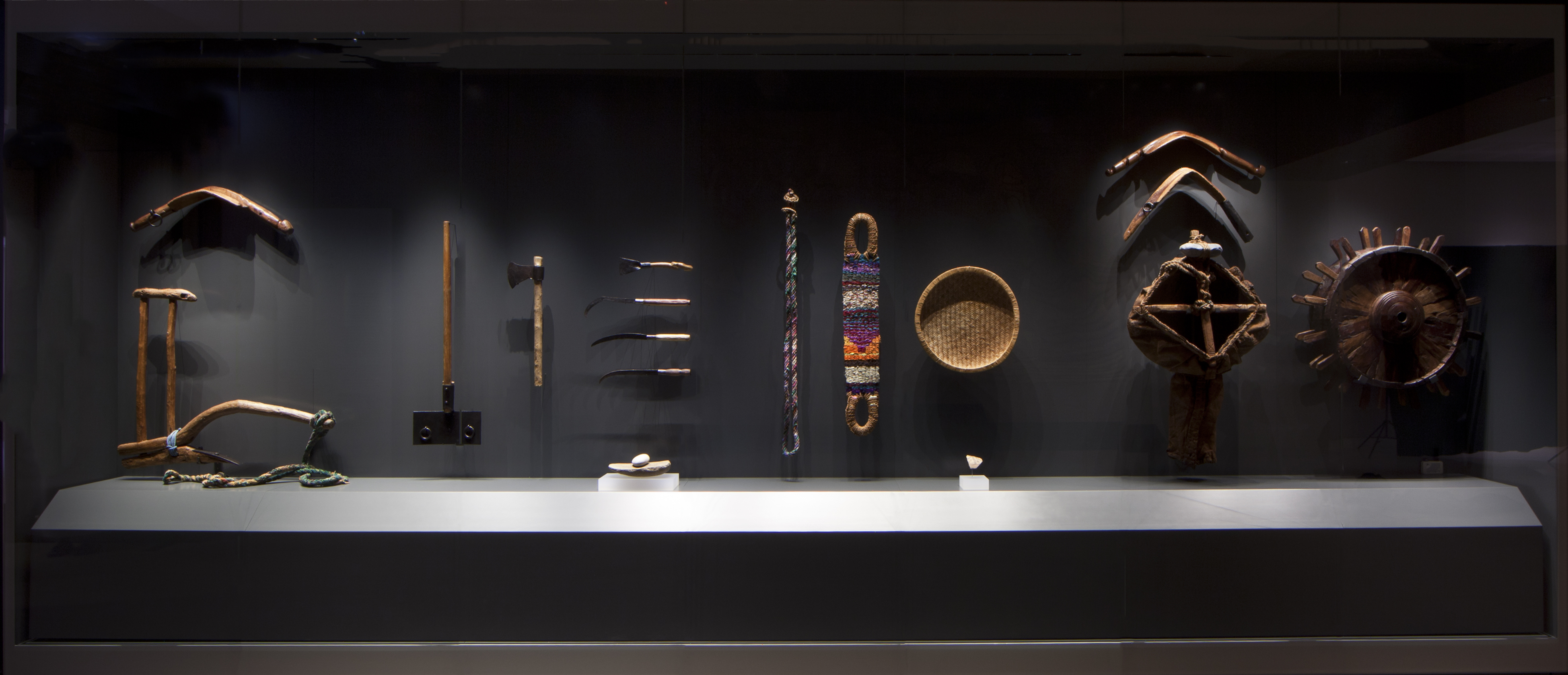 Aflaj Gallery in The National Museum Oman, shows the water system in Oman.